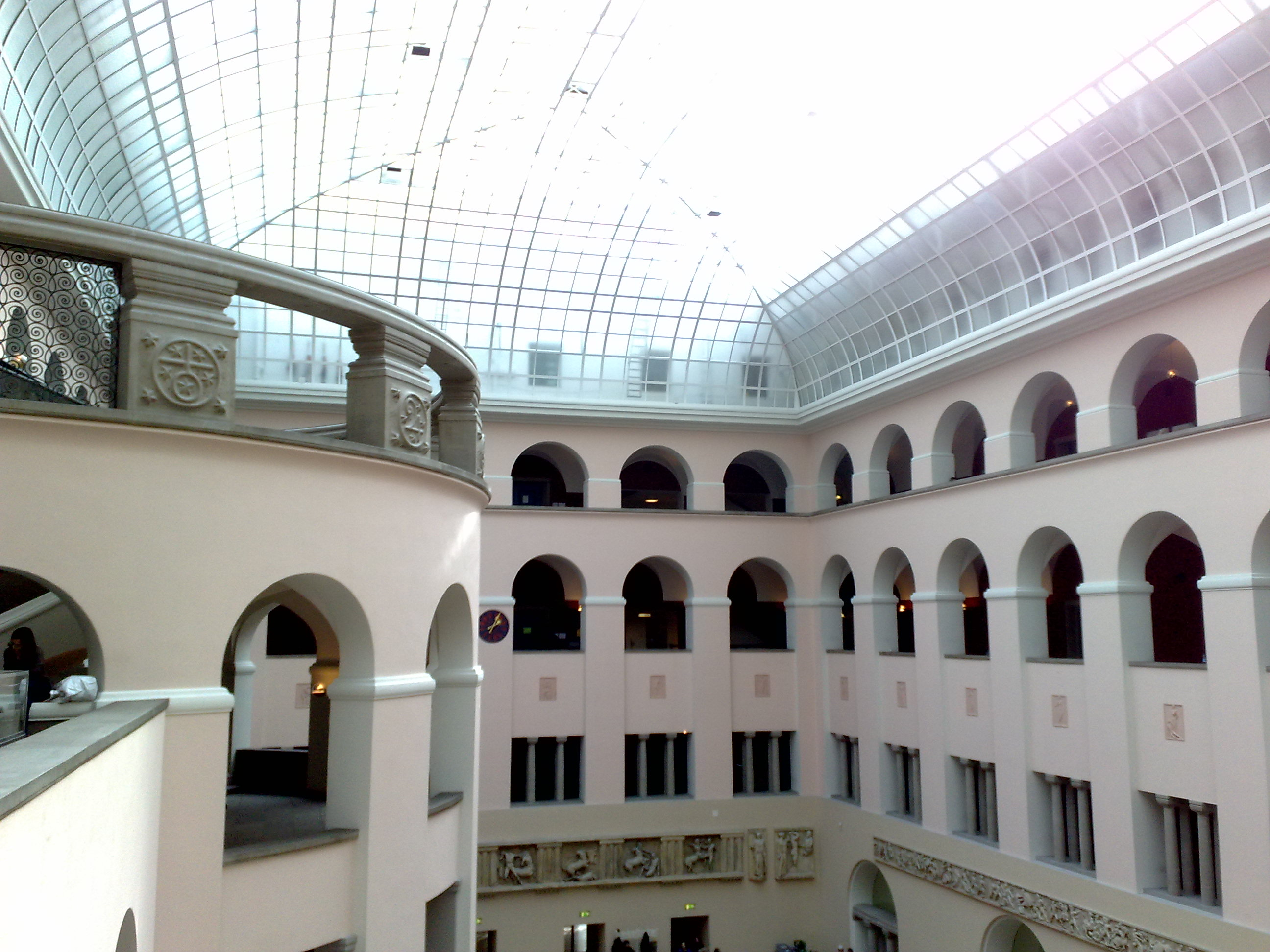 Atrium of the University of Zurich